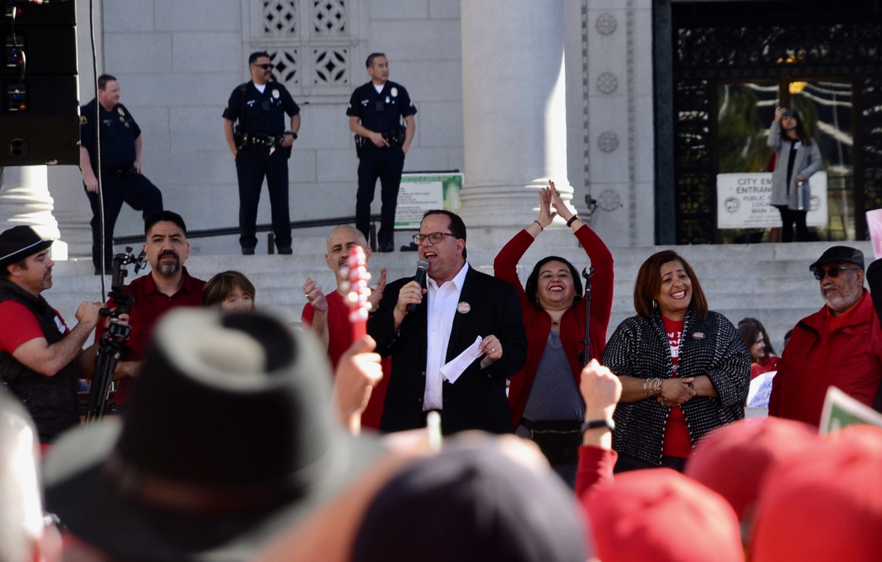 an. 22, 2019. UTLA President Alex Caputo-Pearl and union officers celebrate the end of the strike. Photo credit: Mike Chickey.